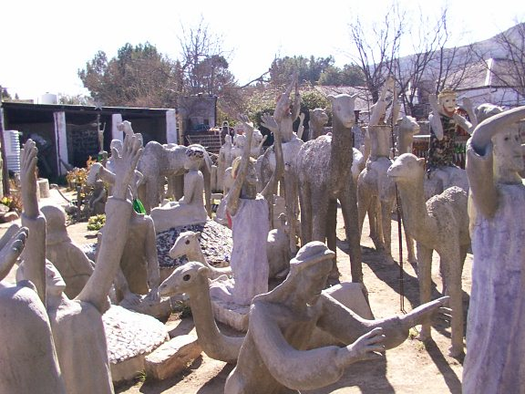 Sculptures at The Owl House, a national monument in Nieu Bethesda, South Africa